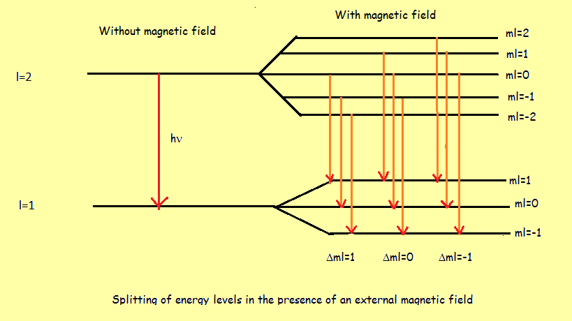 This picture is intended to provide a visual description of the lifting of degeneracy in the Hydrogen atom energy levels by the application of an external perturbation in the form of a magnetic field.